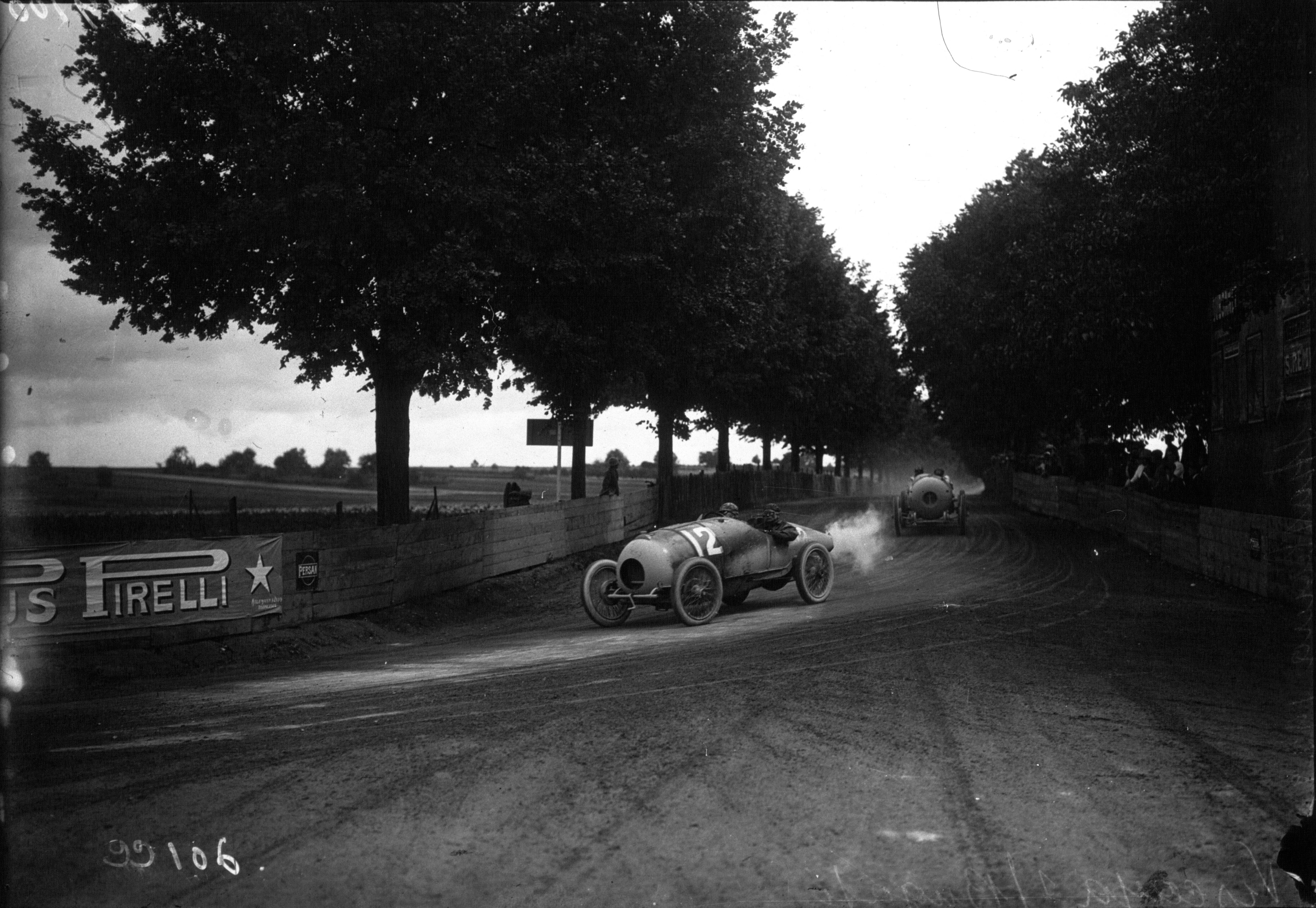 Pierre de Vizcaya and Giulio Foresti at the 1922 French Grand Prix